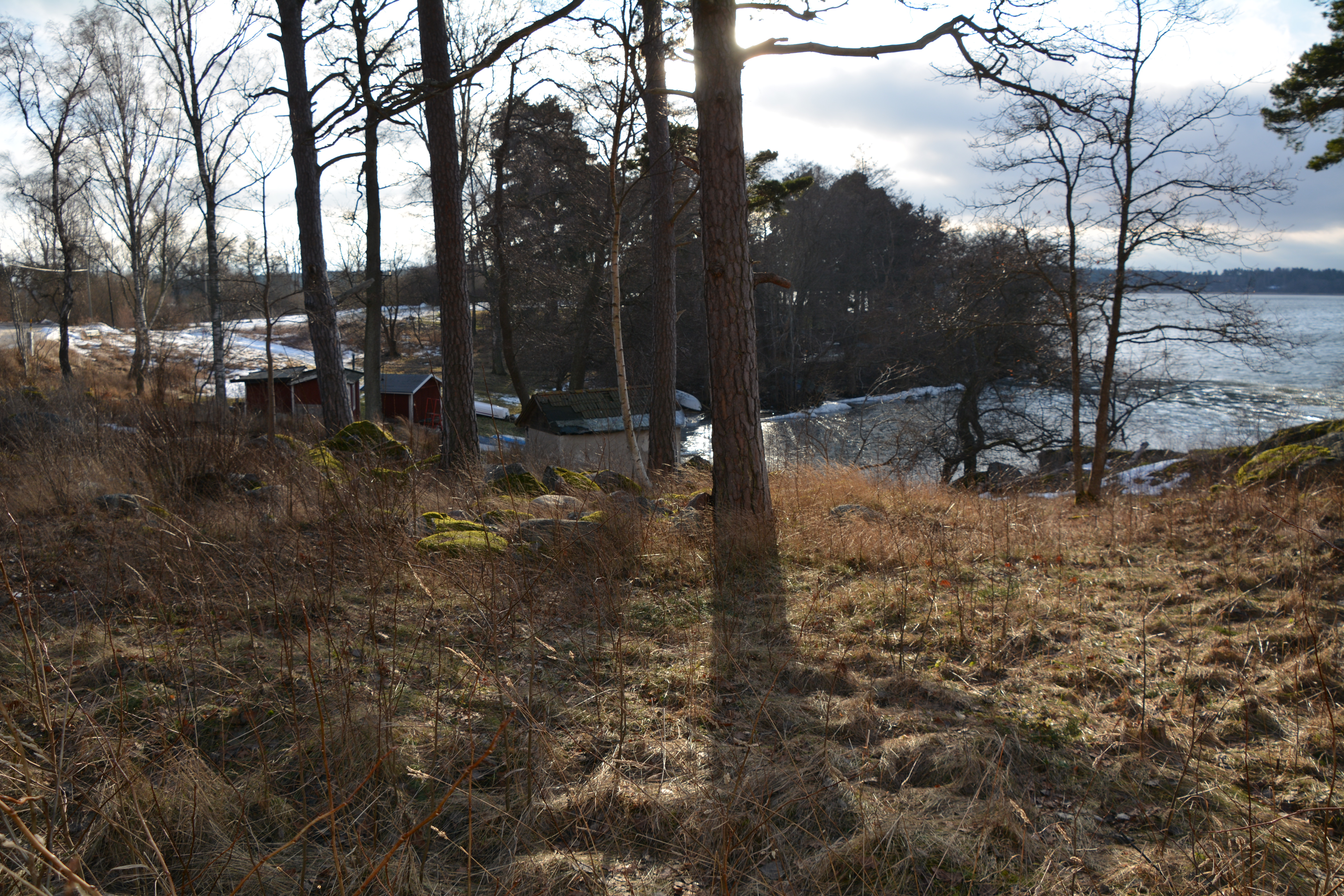 Kyrkhamn